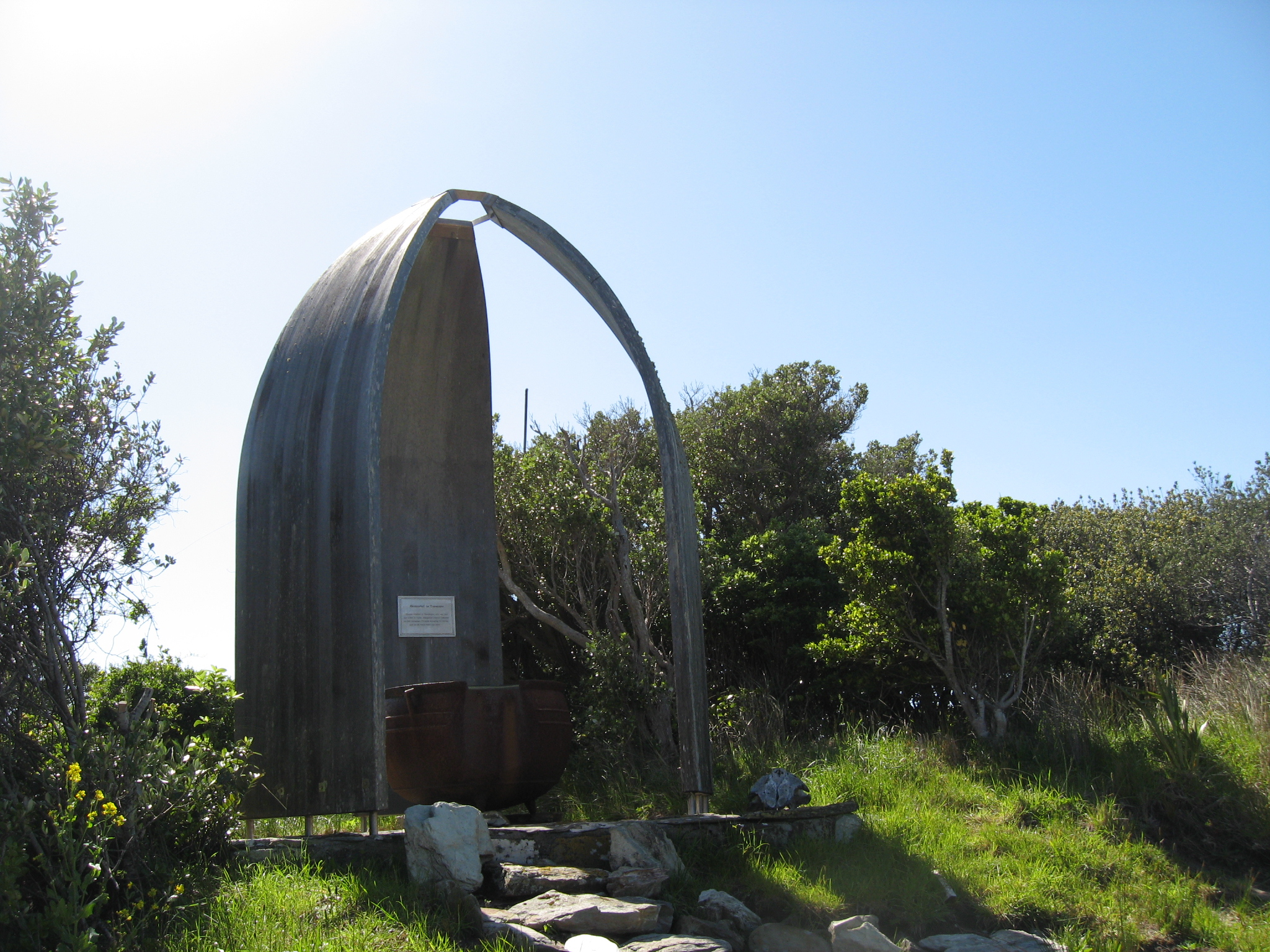 Monument to Torotoro above Kaingaroa Beach, Catham Islands, New Zealand.